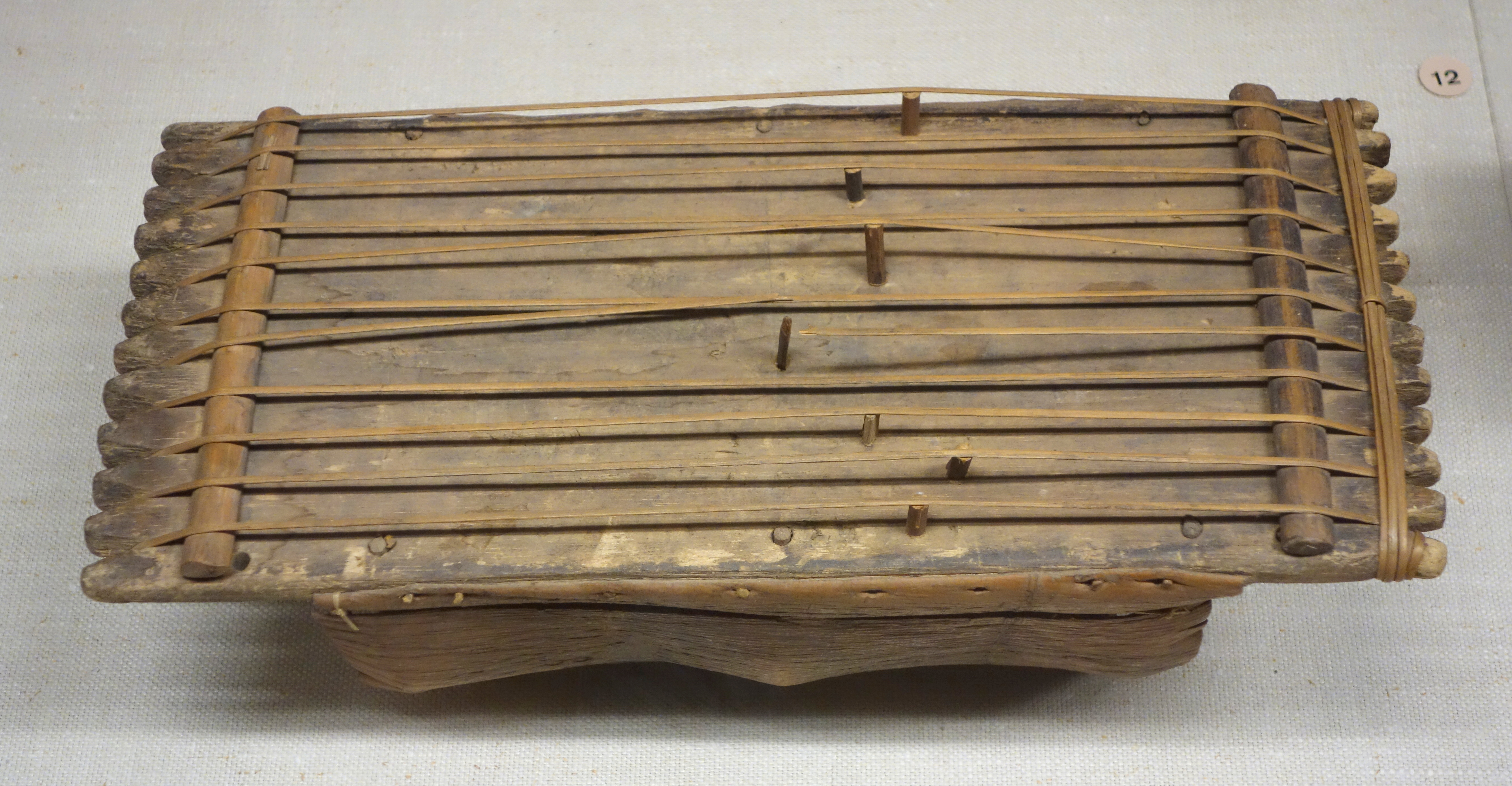 Exhibit in the Royal Museum for Central Africa, Tervuren, Belgium. This object is old enough so that it is in the public domain.